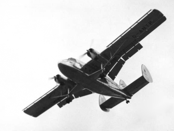 Scottish Aviation Twin Pioneer Prototype G-ANTP at Farnborough SBAC Show in September 1955